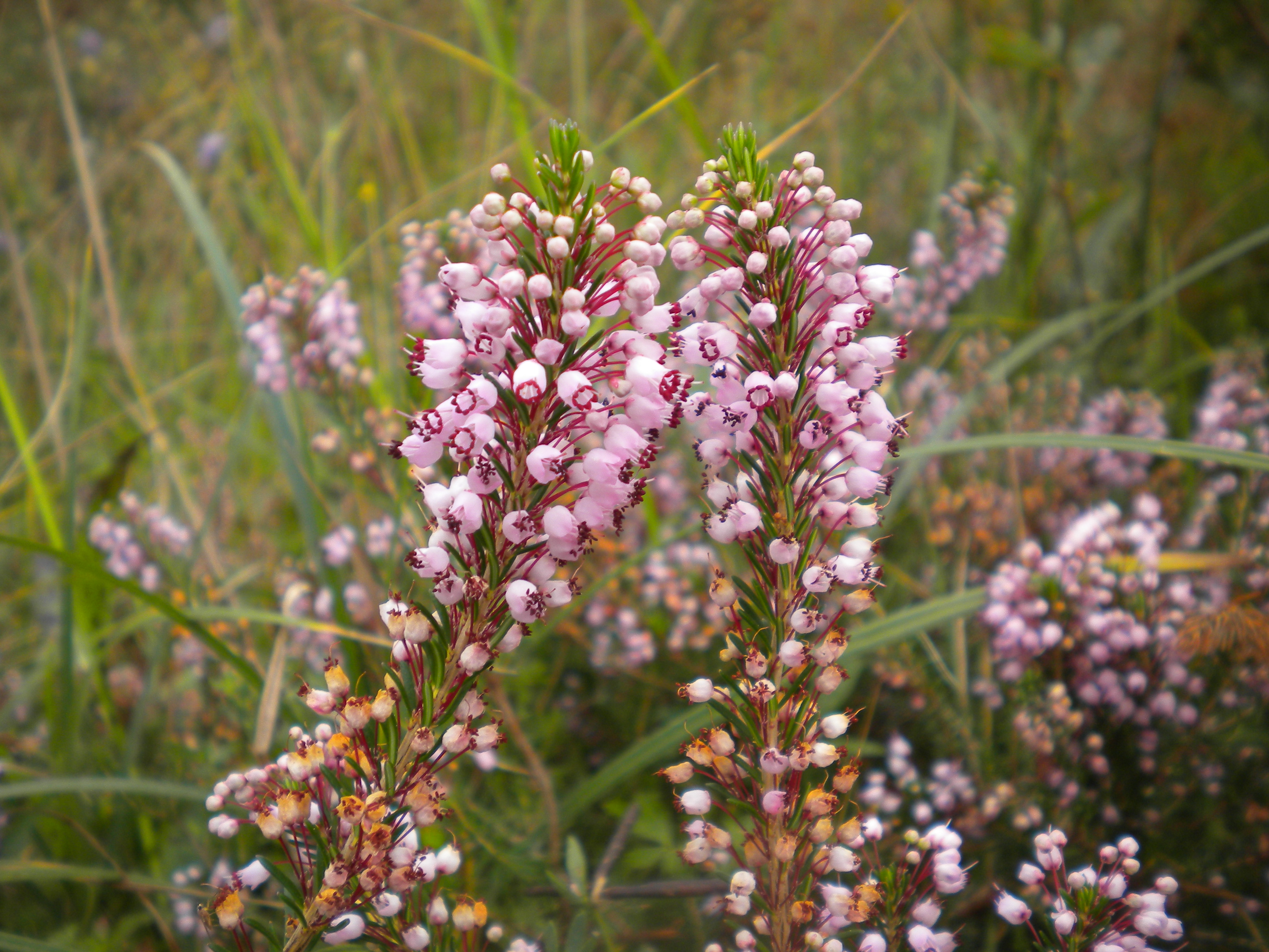 Erica vagans in La Rioja, Spain.